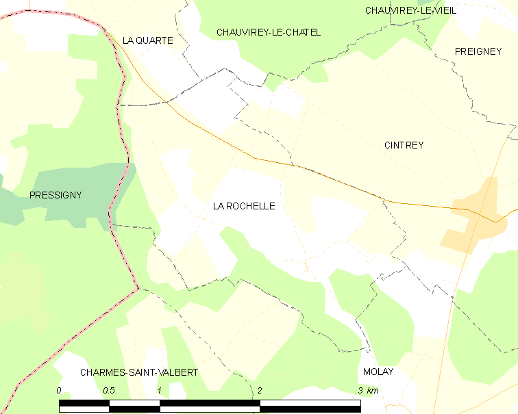 Map of French municipality